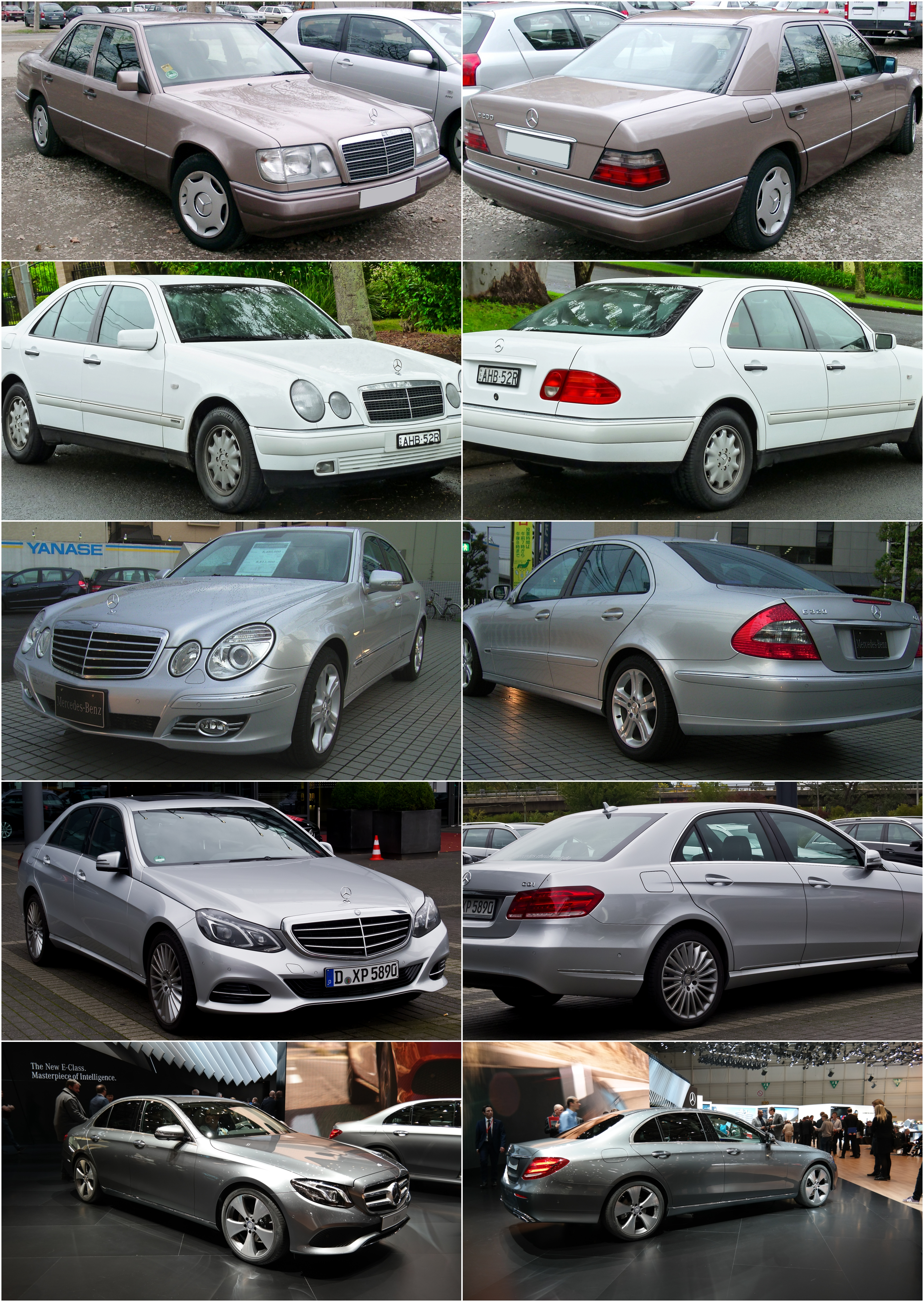 The five series (W124, W210, W211, W212, W213) of the Mercedes-Benz E-Class compared.